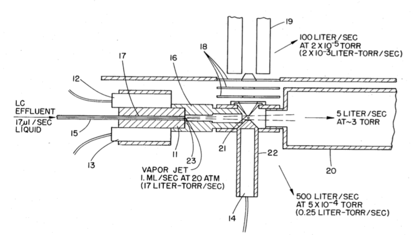 Diagram (cross sectional view) of first representation of thermospray vaporizer